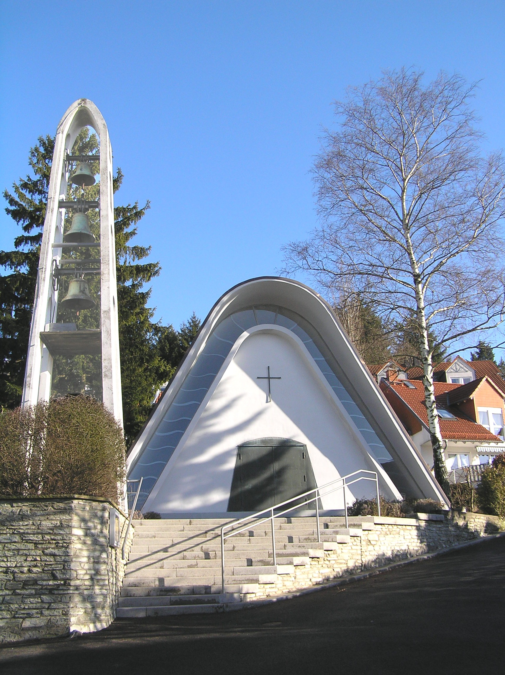 Protestant Church Glashütten, Taunus, Germany